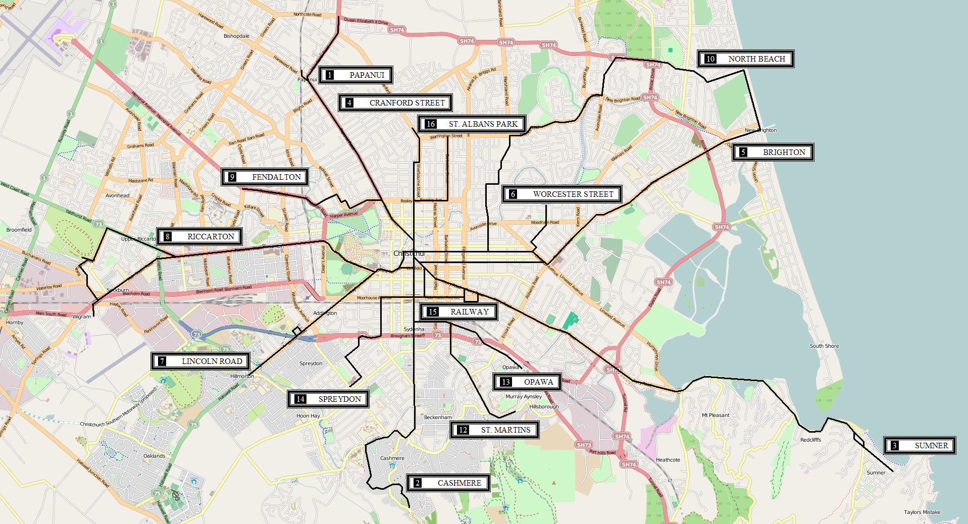 Route map of the Christchurch Tramway Board tramway system in Christchurch, New Zealand as it was in the 1920s. N.B. The base road map used here is for reference only and no attempt has been made to make it commensurate with the era in which the tramway operated.